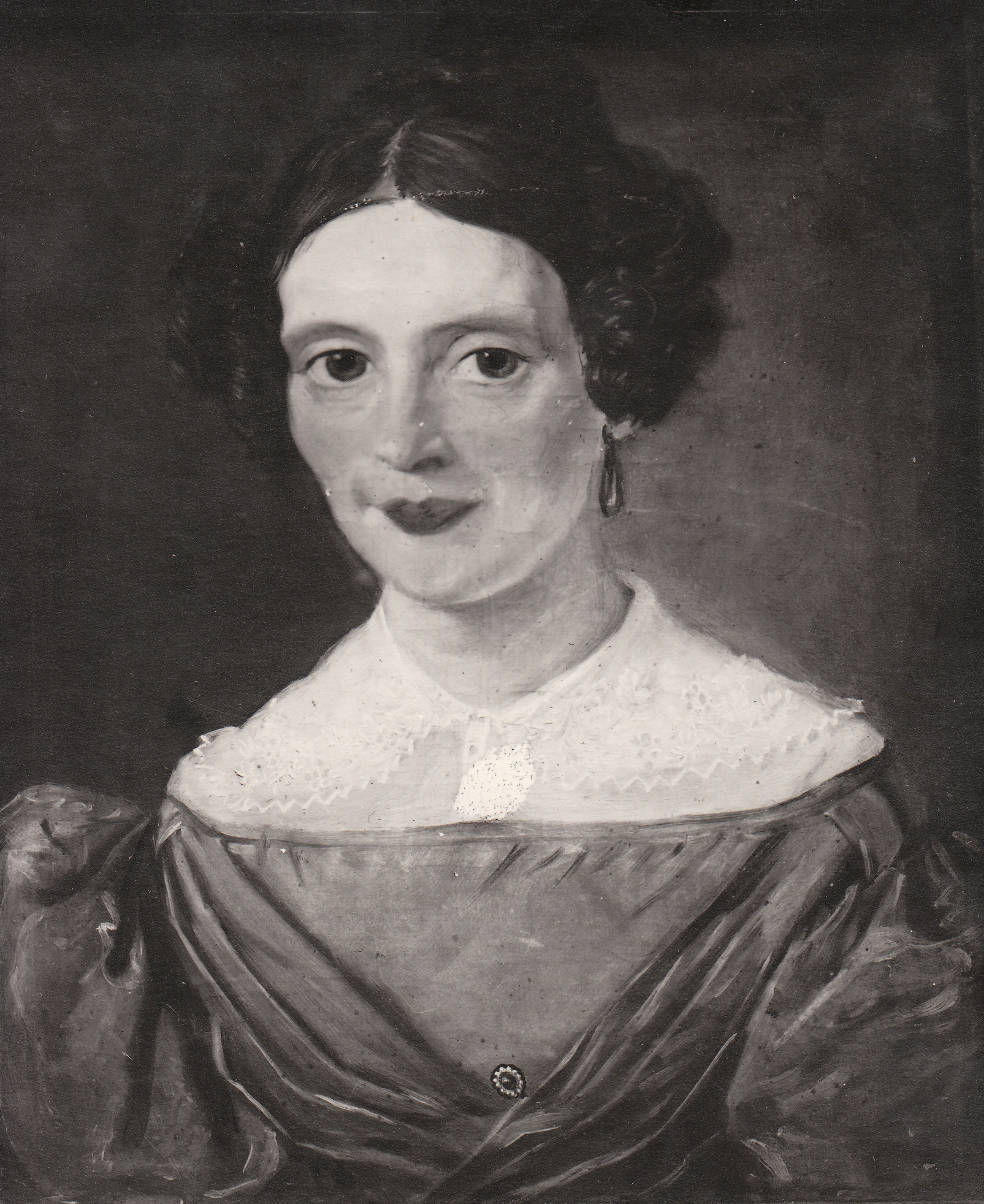 Marie Susanne Lagergren Rosenvinge, born 1801, dead 1884. Wife of Abraham Bredahl Rosenvinge.